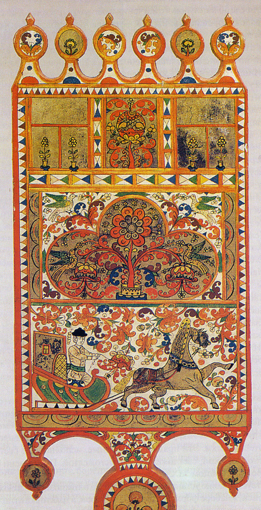 Spinning wheel board from Nizhyaya Toyma in Arkhangelsk Oblast.